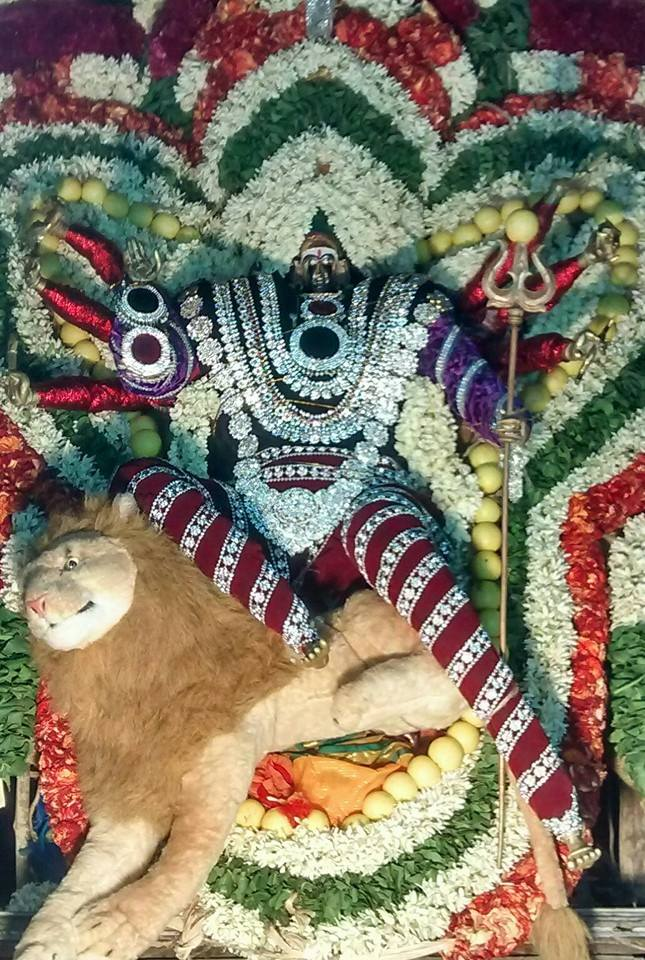 Ellaiamman kovil festival at Purisai Village